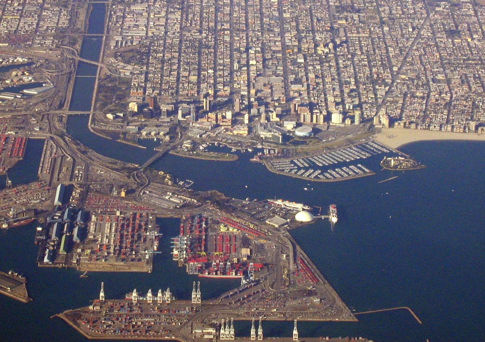 The City of Long Beach and the Port of Long Beach - and the Los Angeles River (upper left) with its mouth at San Pedro Bay, Southern California.